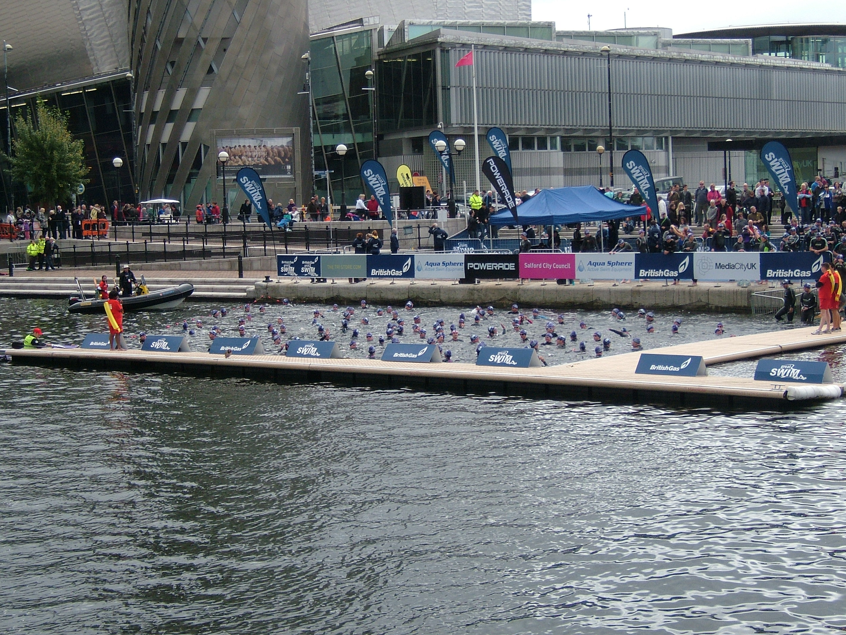 The Salford Quays, the former Manchester Docks on the Manchester Ship Canal have been redeveloped. They played host in 2010, to a one Open water swimming event,the British Gas Great Swim, from No 9 Basin, through the Mariners Canal to the Salford Watersports Centre in Basin 8. Water temperature 14.5C. Above 3000 participants. Acclimatising to the water temperature with the Lowry behind.